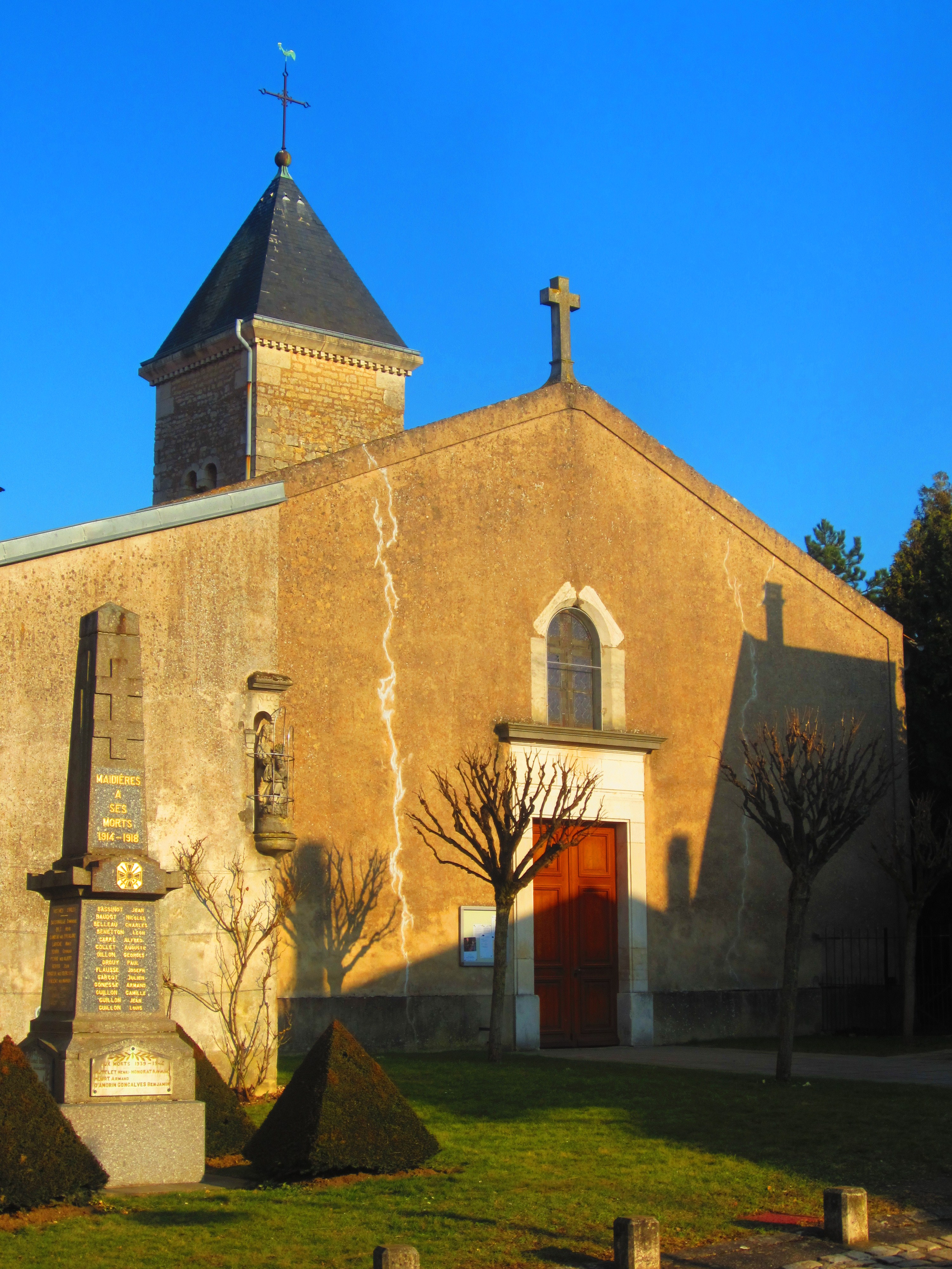 Maidieres church